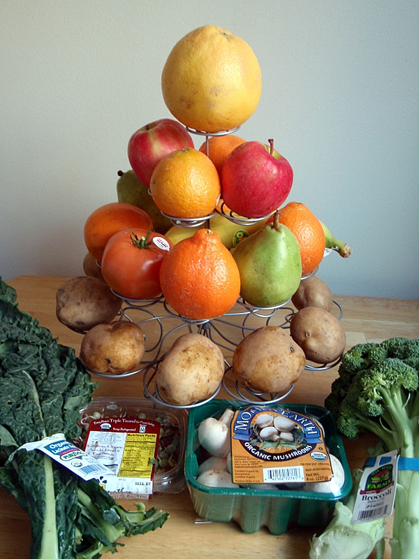 I made kale chips with the kale, used the mushrooms in hot pot, ate the grapefruit, apples, and bananas, used the pears and oranges for panna cotta, used the tomato to make tomato and eggs over rice, used the broccoli for pan-fried noodles (post coming soon), used the potatoes for potato leek soup with bacon, used the scallions for Peking duck.